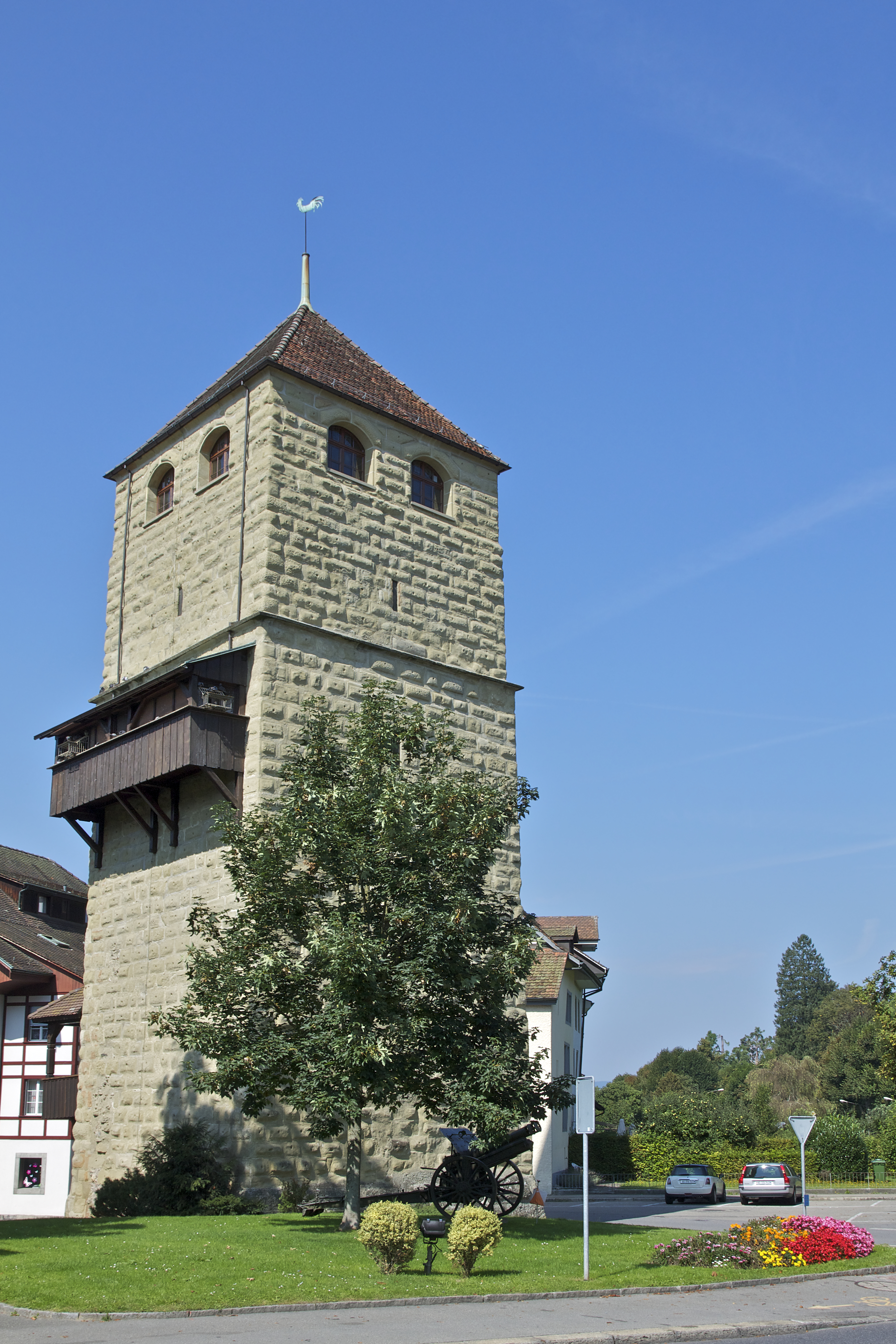 The powder tower in Zofingen and a piece of the park next to the old city.